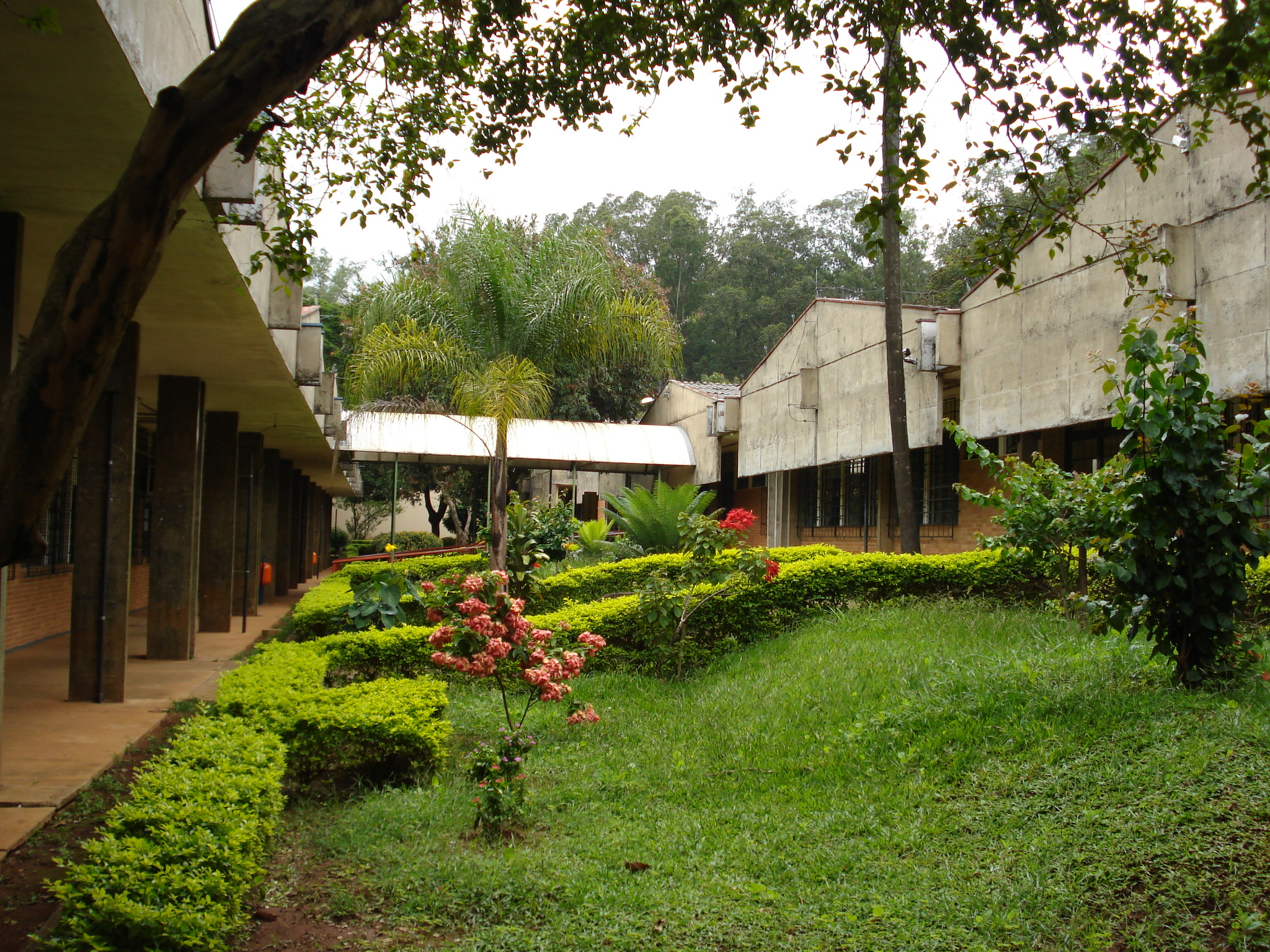 Federal University of São Carlos